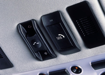 A BMW Assist "SOS" button as found on vehicles equipped with BMW Assist. A BMW Assist "SOS" button as found on vehicles equipped with BMW Assist.